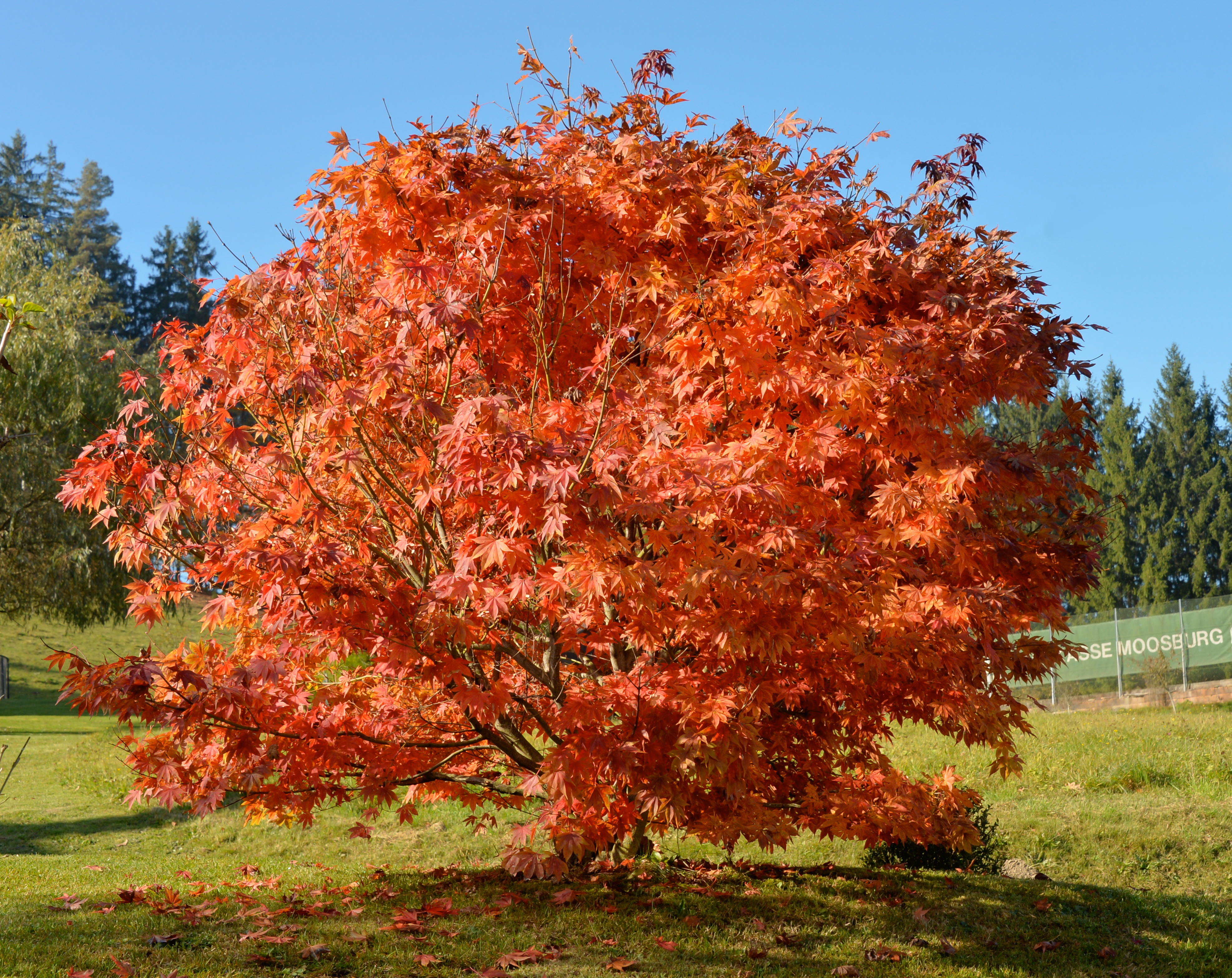 Maple tree on the Gaisrueckenstreet #30 at Untergoeriach, market town Moosburg, district Klagenfurt Land, Carinthia, Austria, EU